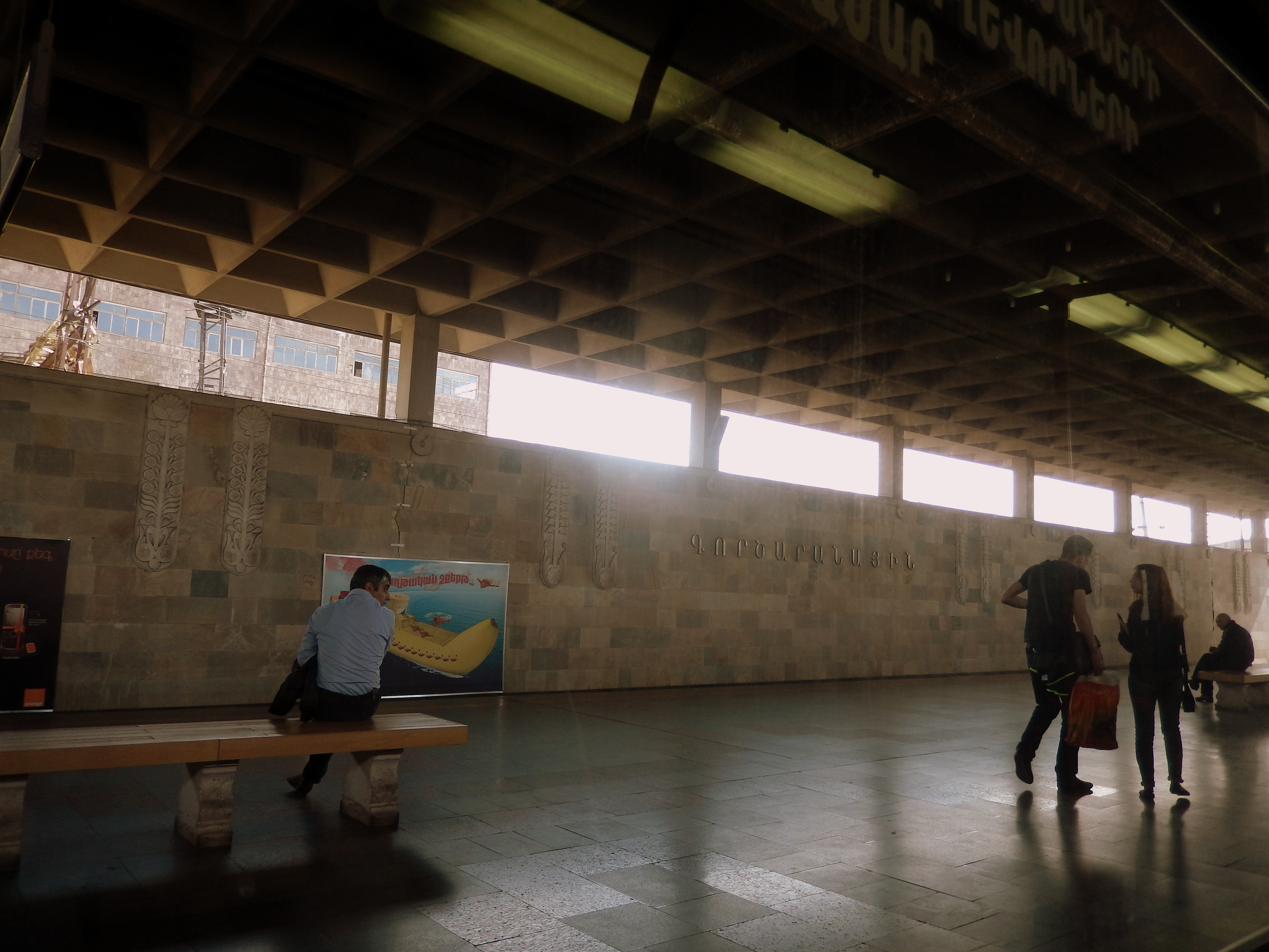 Gortsaranayin Metro Station